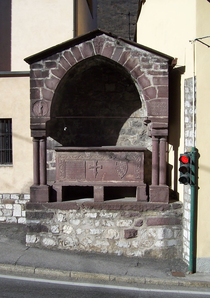 Isonno Federici's sarcophagus, 14° c. Gorzone, Darfo Boario Terme, Val Camonica